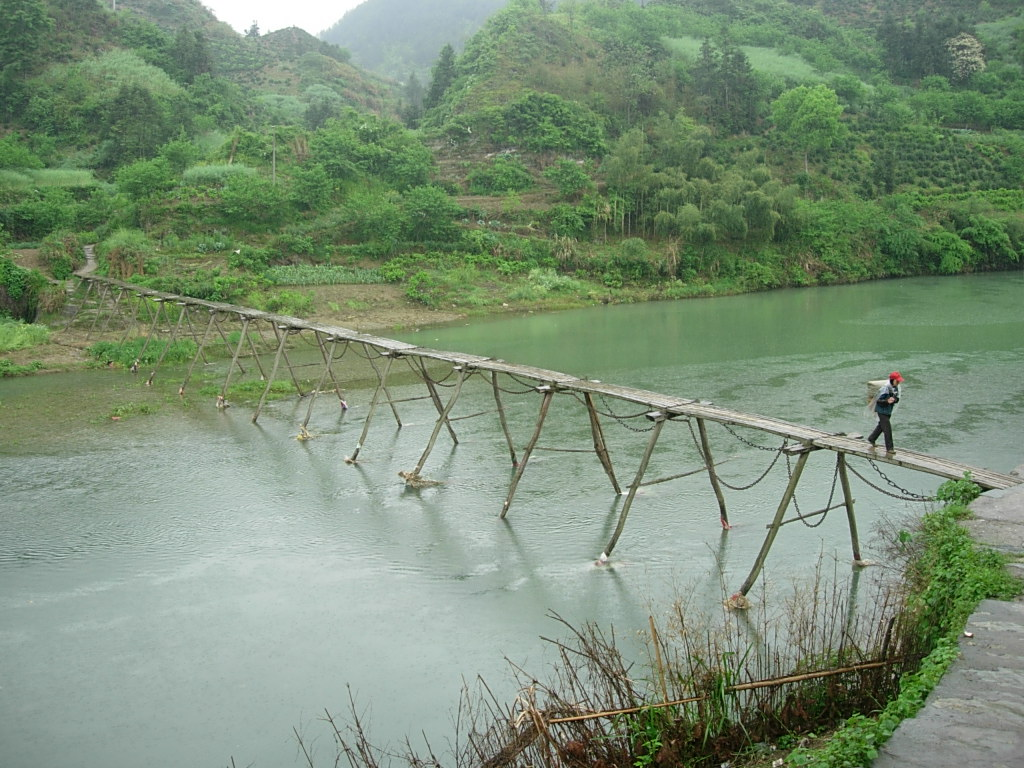 A wooden bridge in Changxi, She County, Anhui Province, China. The bridge was first built in the late 19th century.